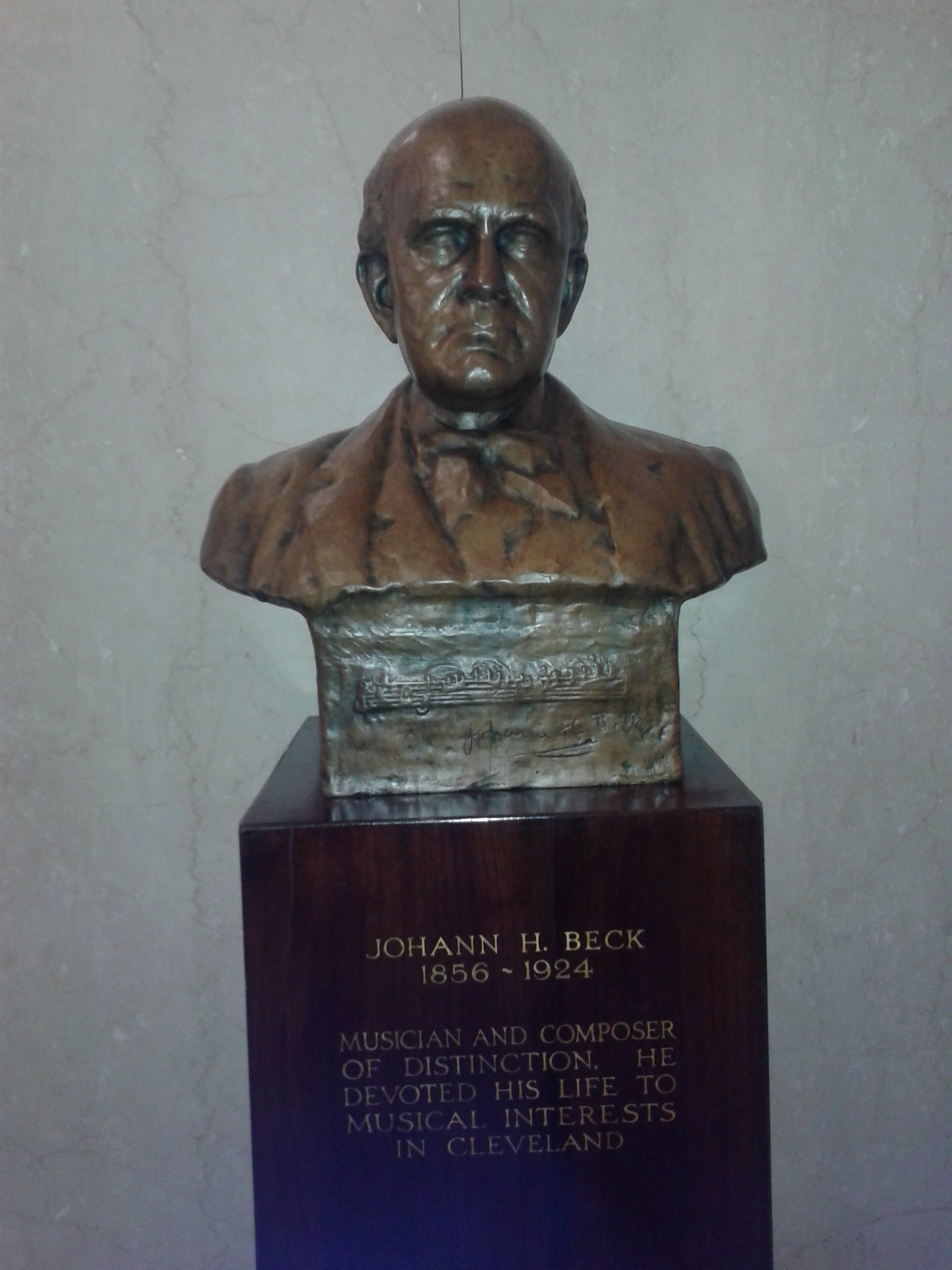 bust of Johann H. Beck. Located in downtown Cleveland Public Library, 3rd floor.